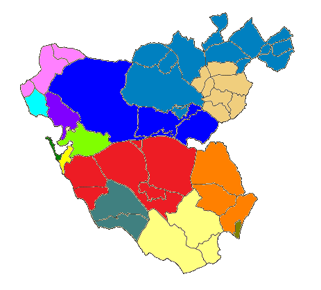 Judicial map of the Province of Cadiz, in Spain.